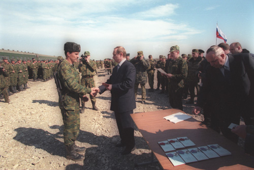 KHANKALA. Presenting servicemen with orders and medals at a farewell ceremony for the 331st Airborne Regiment of the 98th Airborne Division.